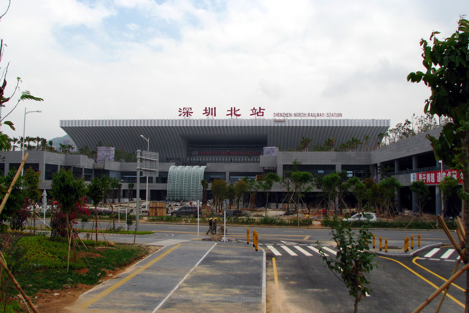 Shenzhen North Railway Station in construction